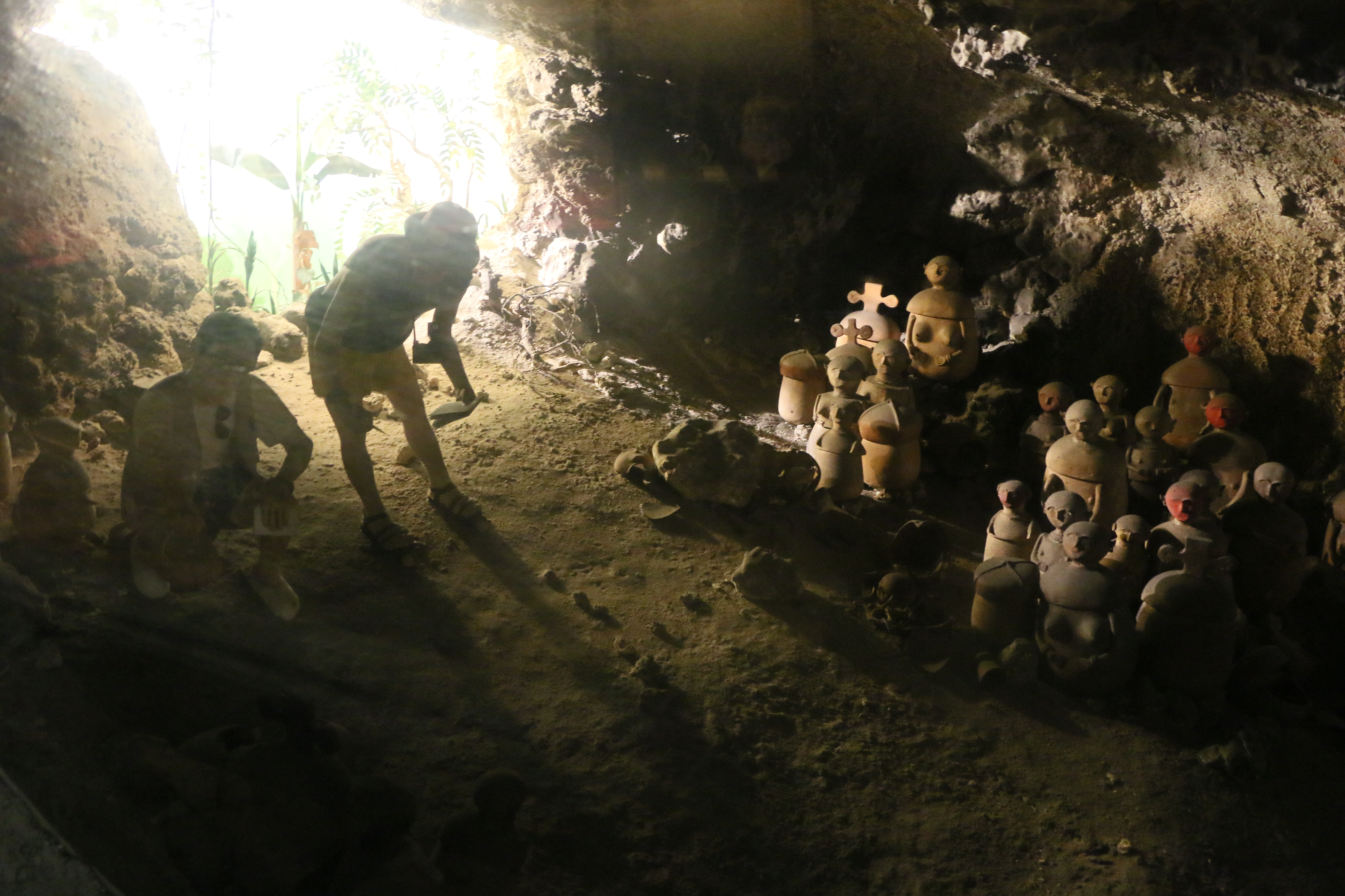 Kaban